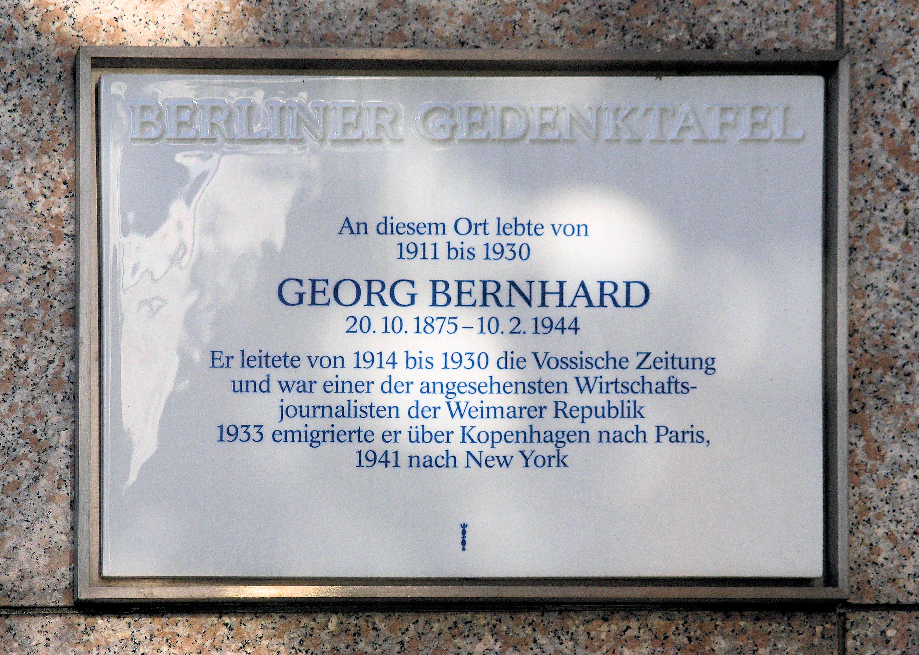 Berlin memorial plaque, Georg Bernhard, Kleiststraße 21, Berlin-Schöneberg, Germany Koordinate:52°30′6″N 13°20′42″E / 52.50167°N 13.345°E